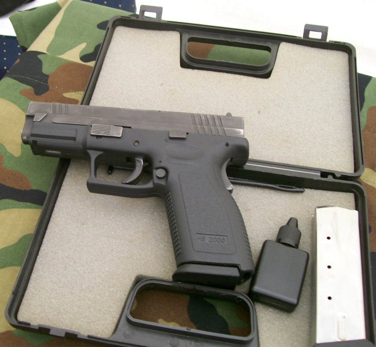 Pistol HS 2000 by HS Produkt